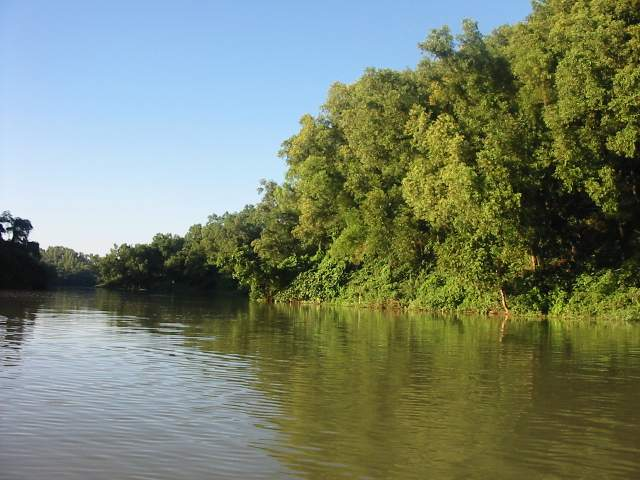 Foy's Lake ( named water park area), beautiful restaurant and houses to stay for visitors and develop and maintain by Concord group, Chittagong.